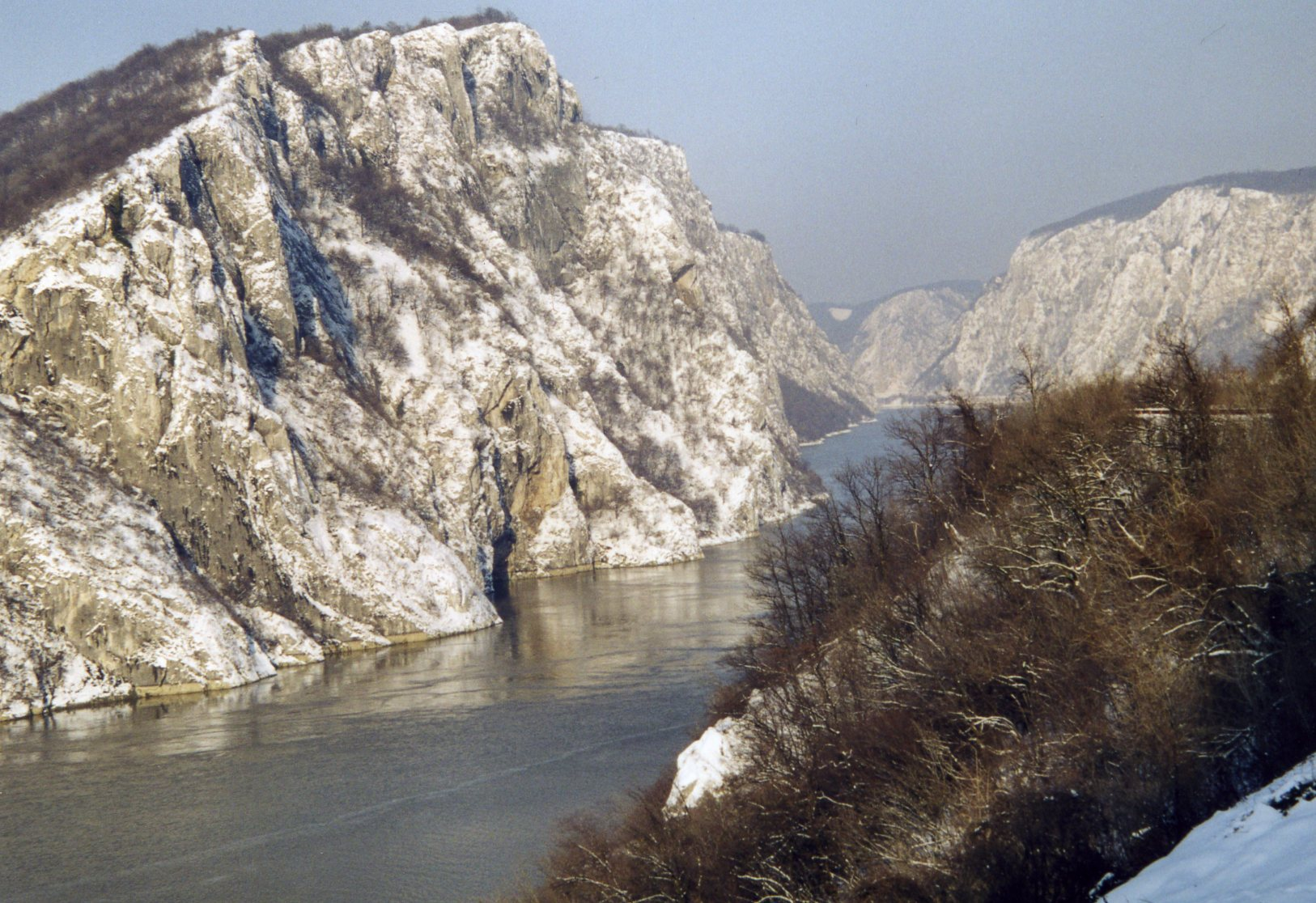 Iron Gate, Kazan Gorge, Danube River.